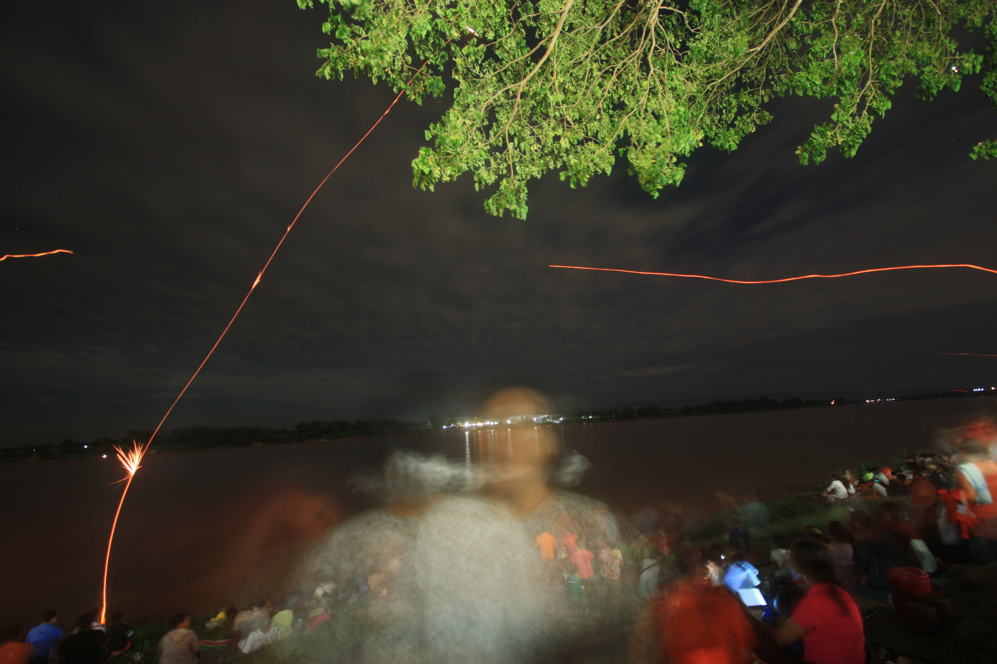 The Beung Fai Phya Nag -- the Naga's Fireballs - are an annual phenomenon always occurring at the end of the Buddhist Rains Retreat (Buddhist Lent, or Ork Pan Sa in Thai). The fireballs, a rosy pink colour, emerge from the Mekong River in and around Nong Khai/Vientiane and shoot a couple of hundred feet into the air before disappearing. So far, no plausible scientific explanation has been put forward for this phenomenon. Many Thais believe they are hurled into the air by the Phaya Nark, a mythical giant snake that lives in the Mekong. Photos shot with Canon 1000D, with 10mm lens set at f4, exposure 30 seconds.